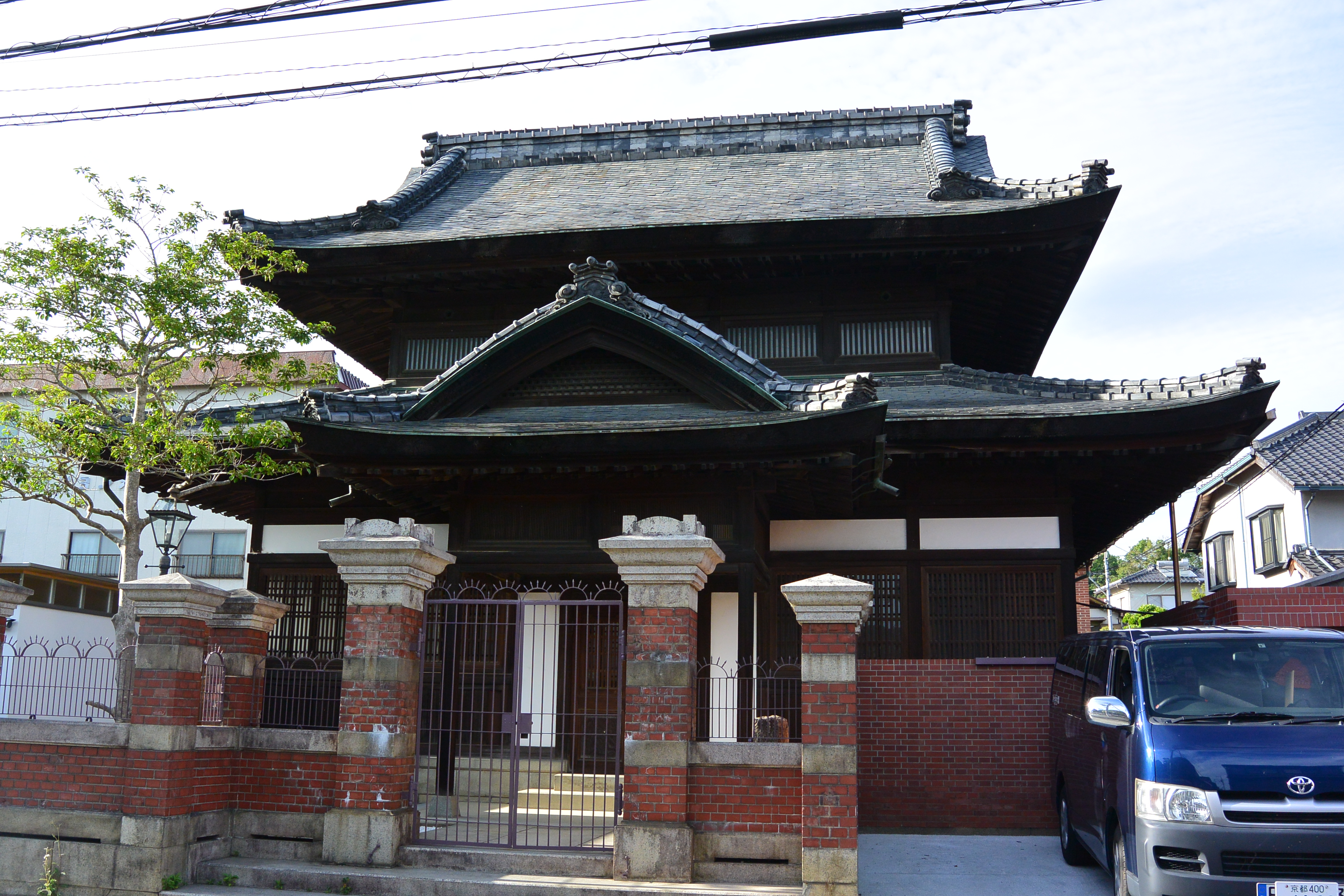 Old wooden building at Tuyama City, Okayama, Japan.